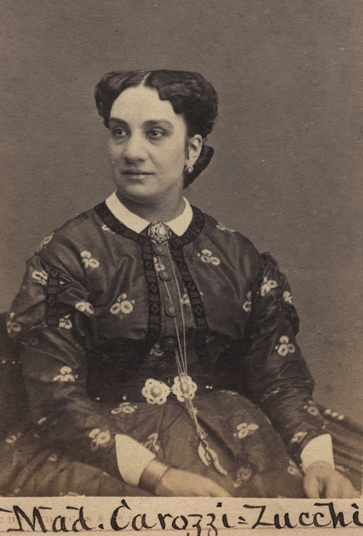 Italian opera singer Carlotta Carozzi-Zucchi (1831-1898).